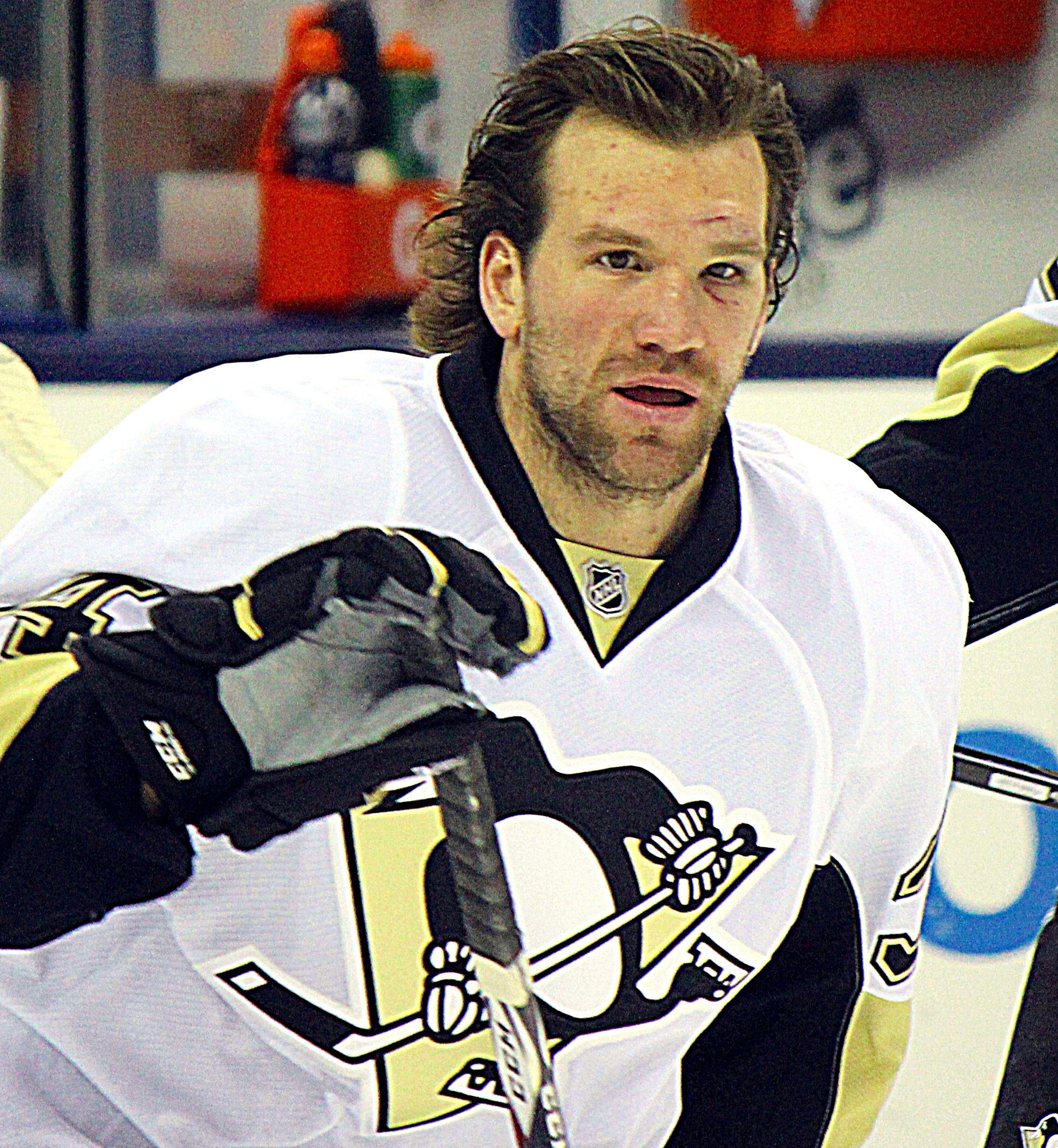 Pittsburgh Penguins forward Bobby Farnham during a game against the Columbus Blue Jackets, December 13, 2014, at Nationwide Arena in Columbus, OH.